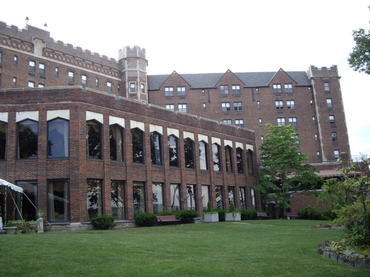 Thayer Hotel, West Point, New York